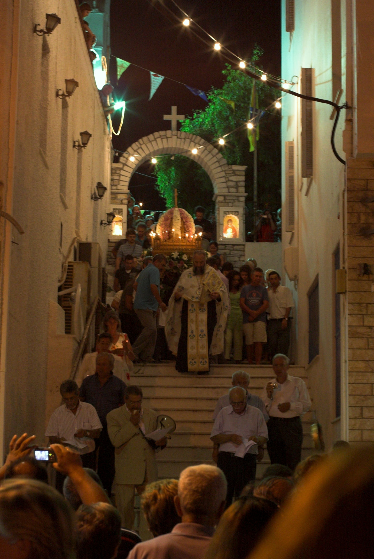 Procession in honor of the Virgin Mary, Chora of Naxos.